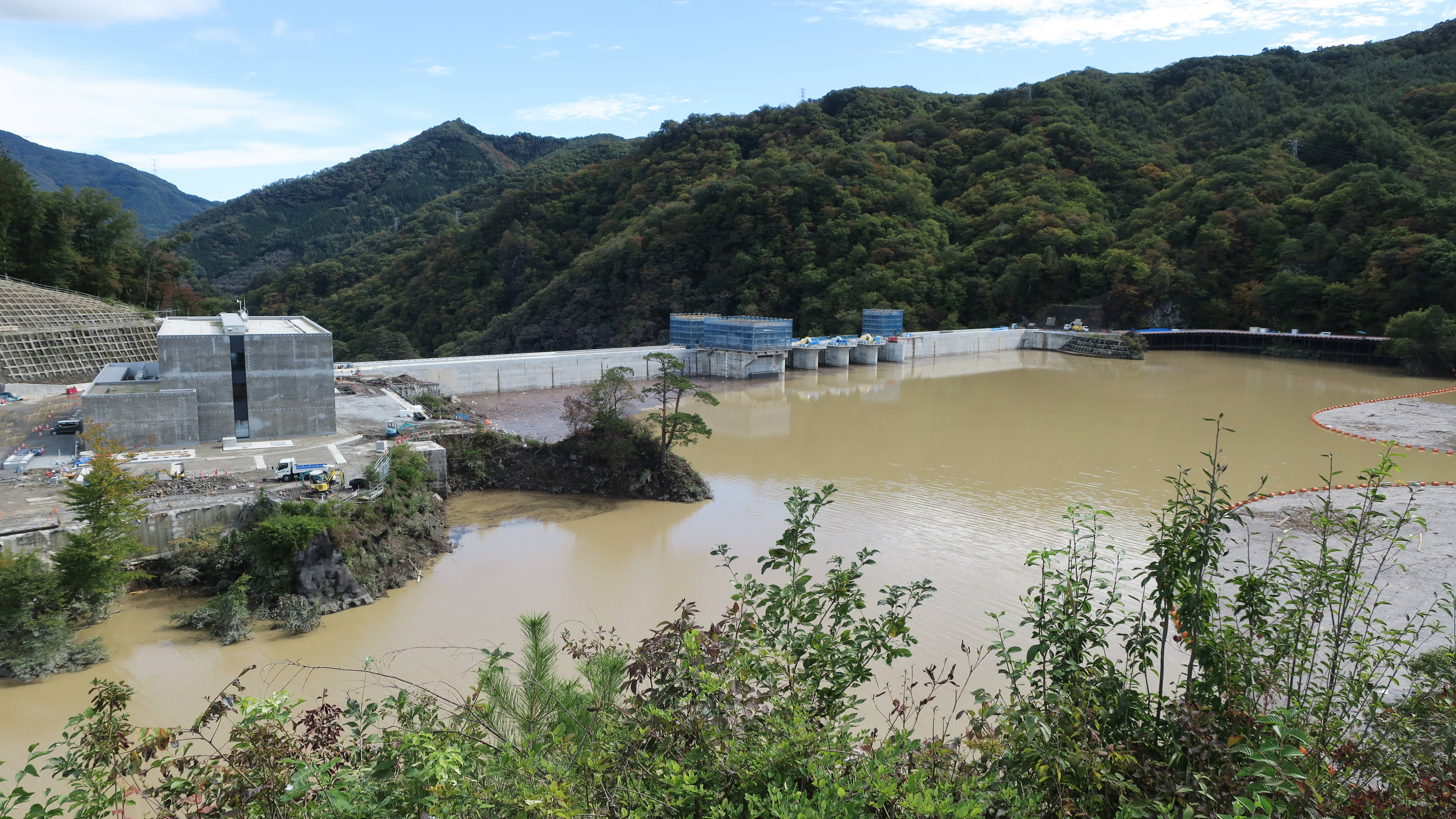 Yanba Dam.